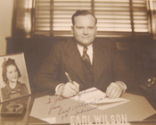 Former United States Representative from Indiana Earl Wilson.